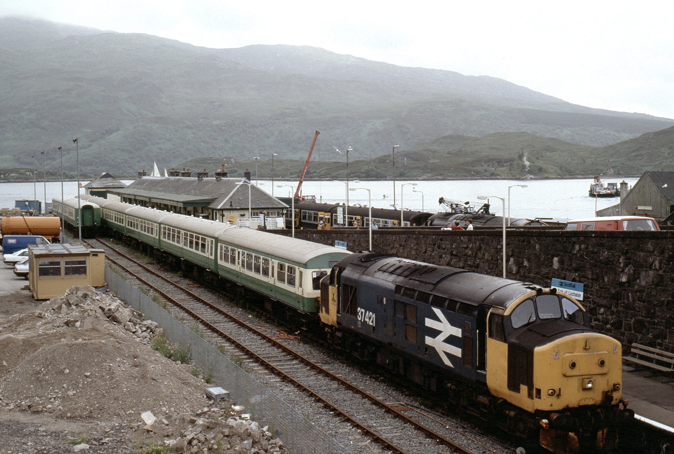 Kyle of Lochalsh station with Class 37